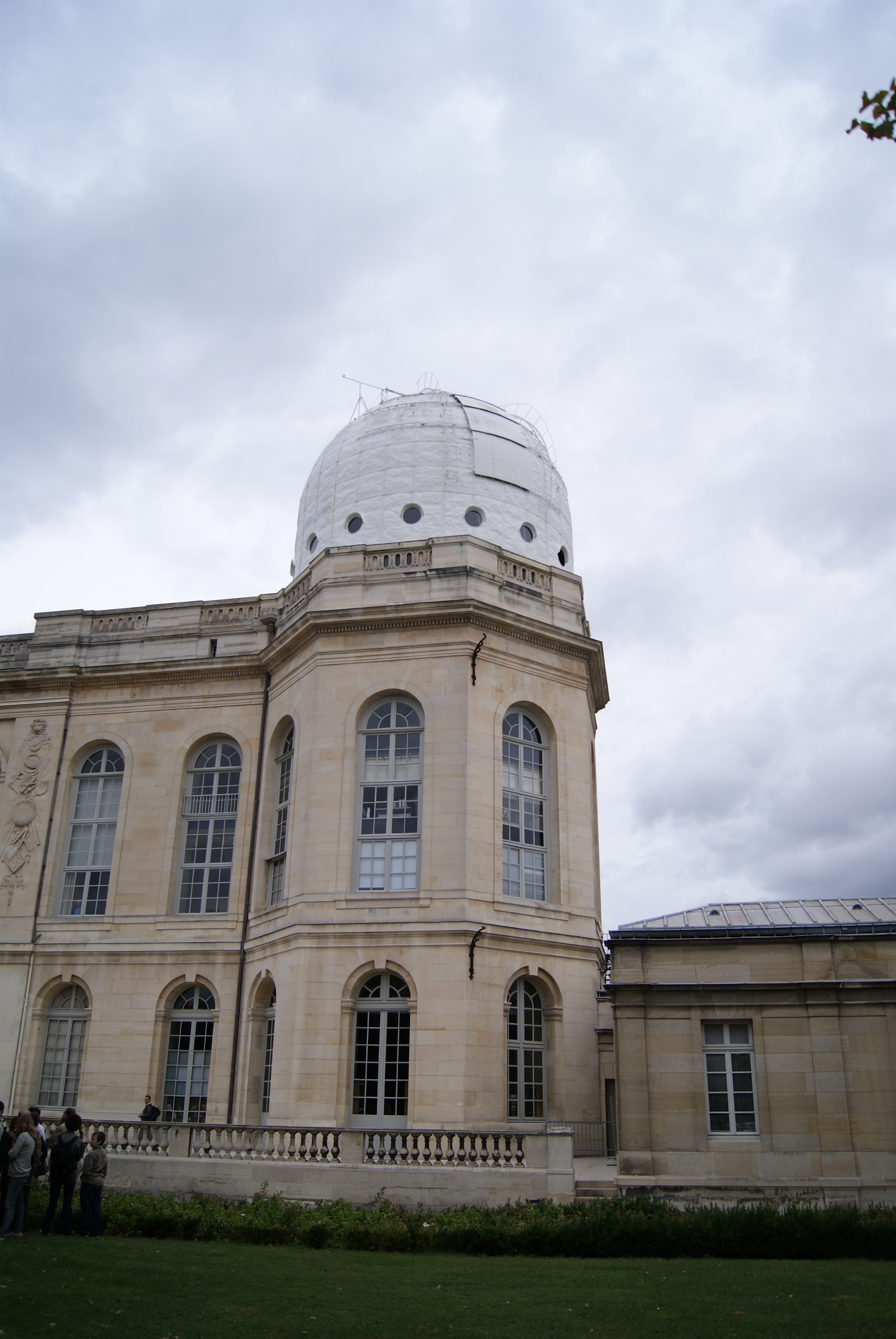 The Arago (main) dome of l'observatoire de Paris This building is en partie classé, en partie inscrit au titre des Monuments Historiques. .